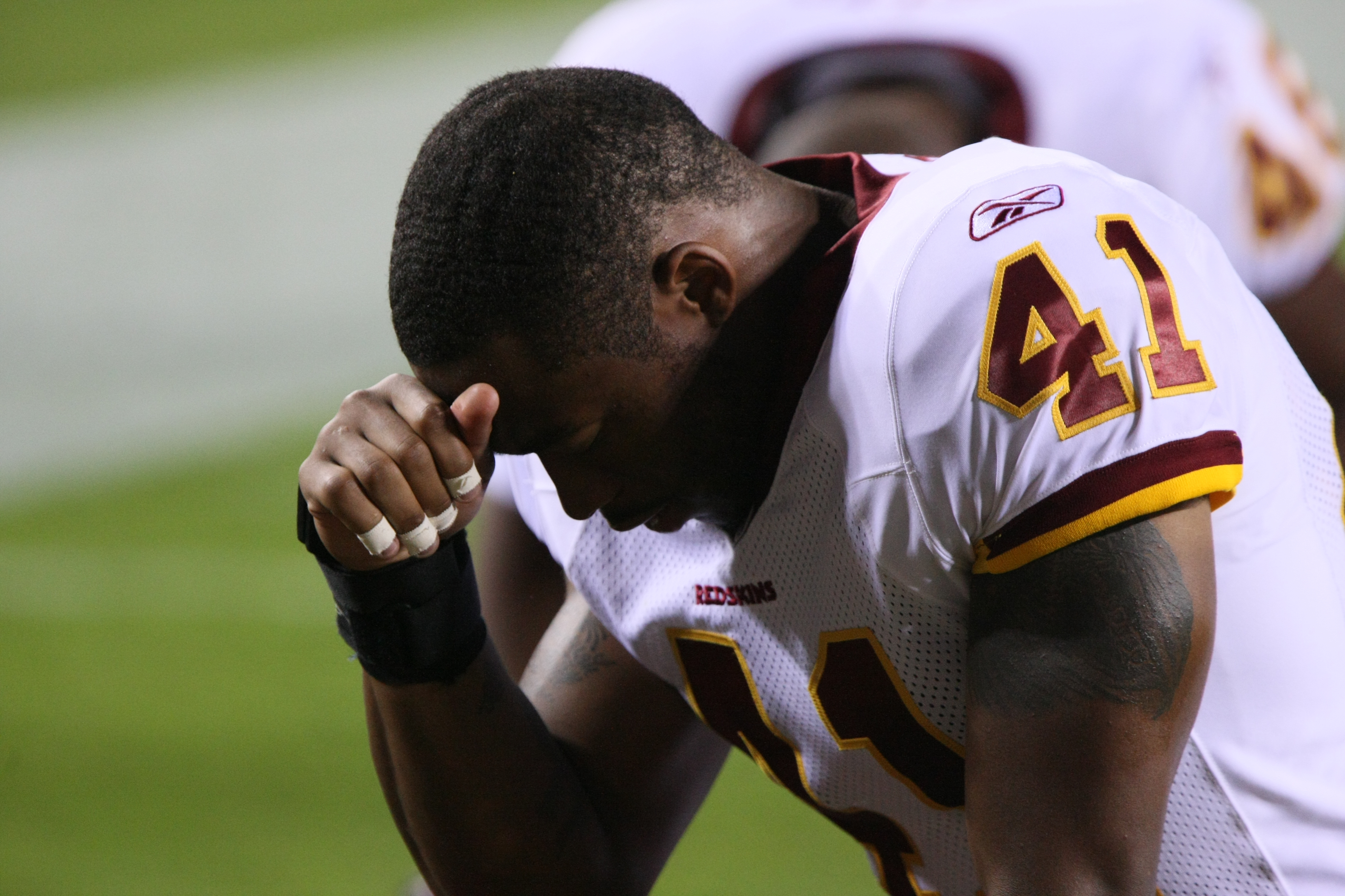 New England Patriots at Washington Redskins 08/28/09